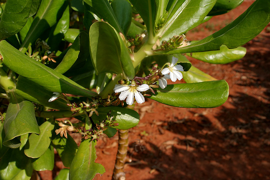 Scaevola sericea- Half Flower, malayan rice paper, beach naupaka • Marathi: Bhadrak, Bhadraksh • Tamil: vella-muttagam • Malayalam: bella-modagam, vella modagam • Kannada: bhadraak; Bhadraksha (Kerala)- in Herbal Garden, in Rangareddy district of Andhra Pradesh, India.